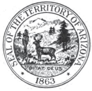 Seal of Arizona Territory (1863-1912), circa 1890.